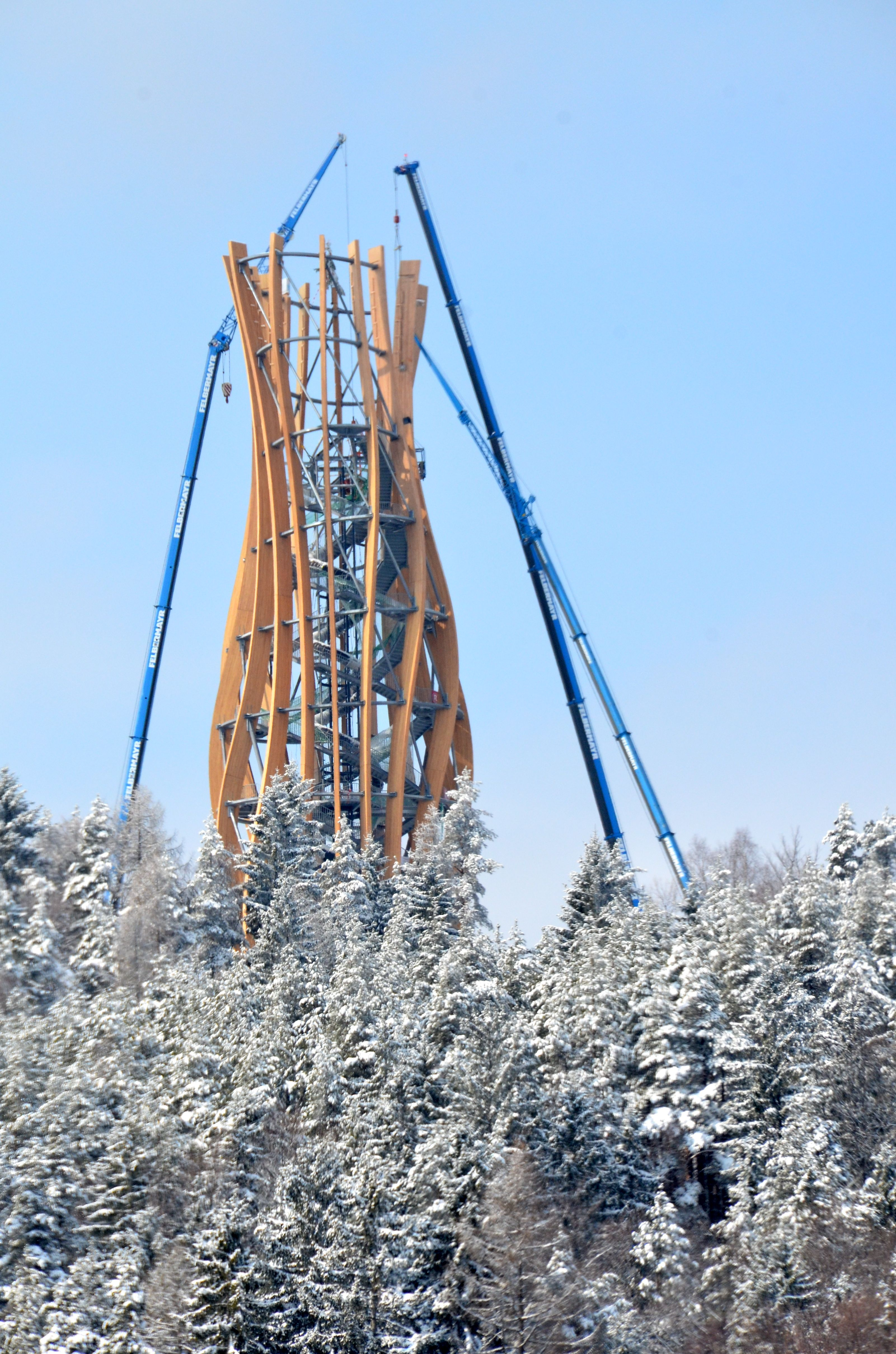 Construction works on the new observation tower on top of the Mount Pyramid (Pyramidenkogel), municipality Keutschach am See, district Klagenfurt Land, Carinthia / Austria / EU